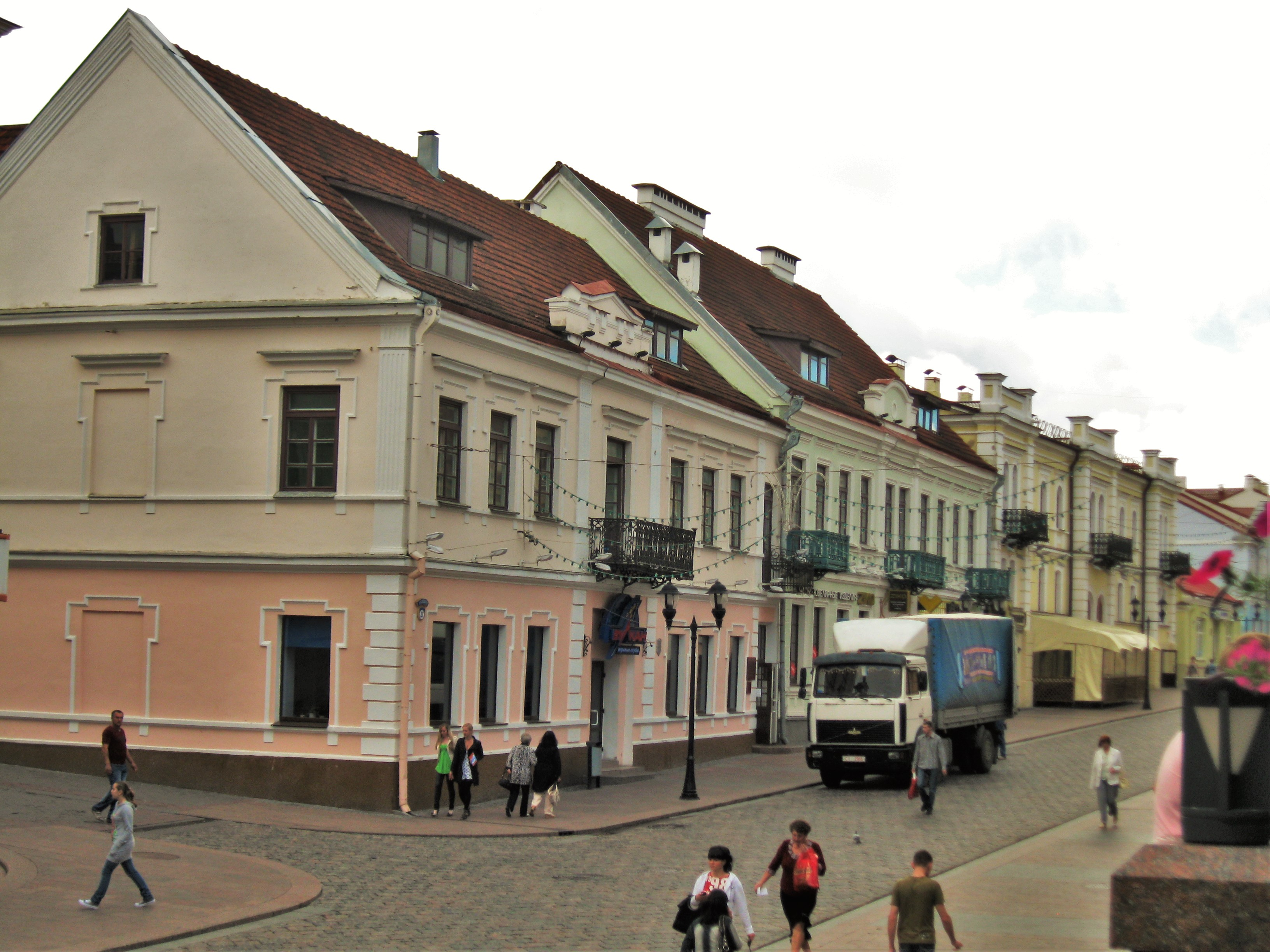 Horadnia - Sovetskaja street Беларуская (тарашкевіца): Горадня - вулiца Савецкая